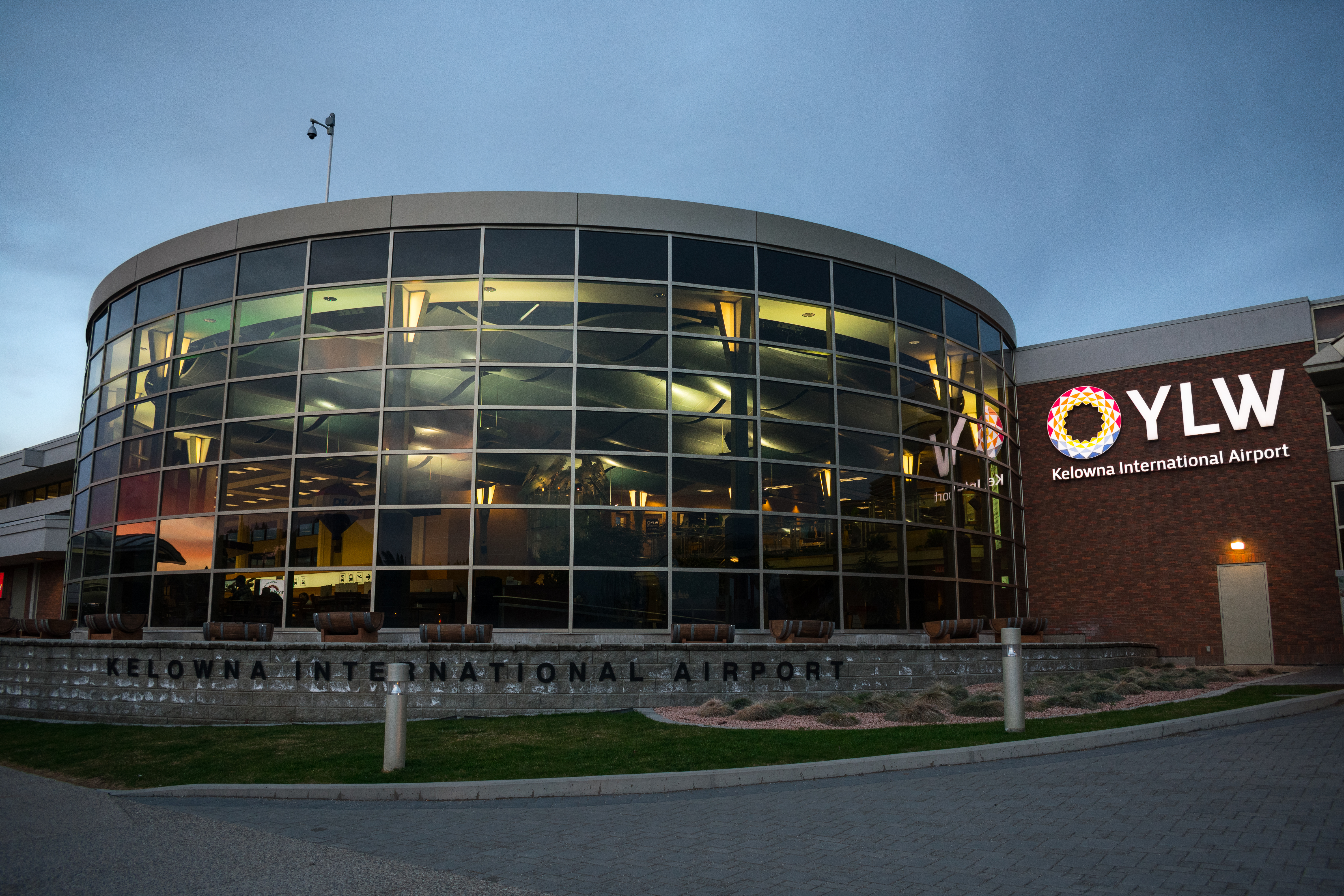 Front of YLW's main terminal